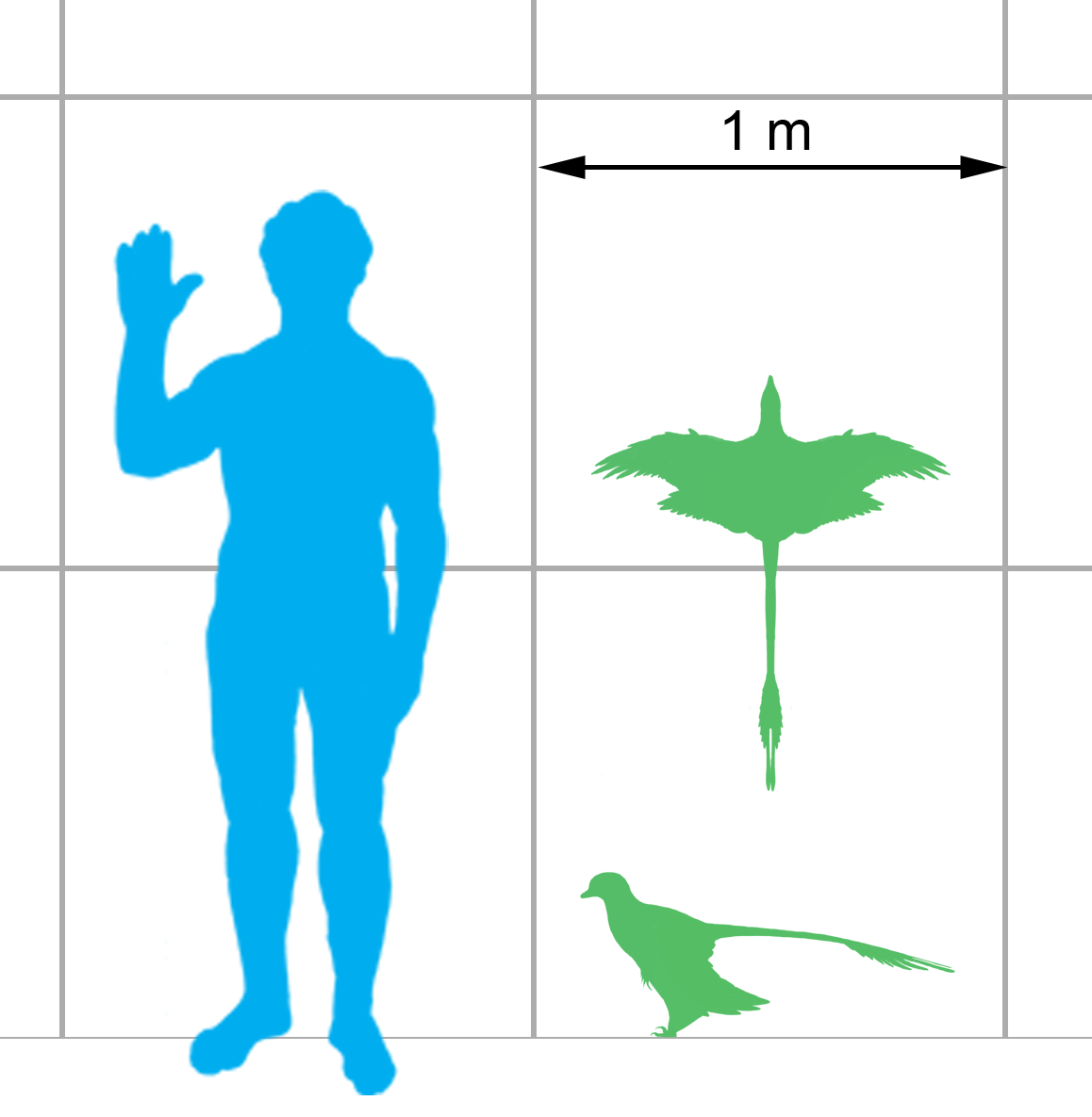 Size of the dinosaur Microraptor gui compared with a human. Scale bar = 1 meter. Scaled based on holotype specimen IVPP V13352.